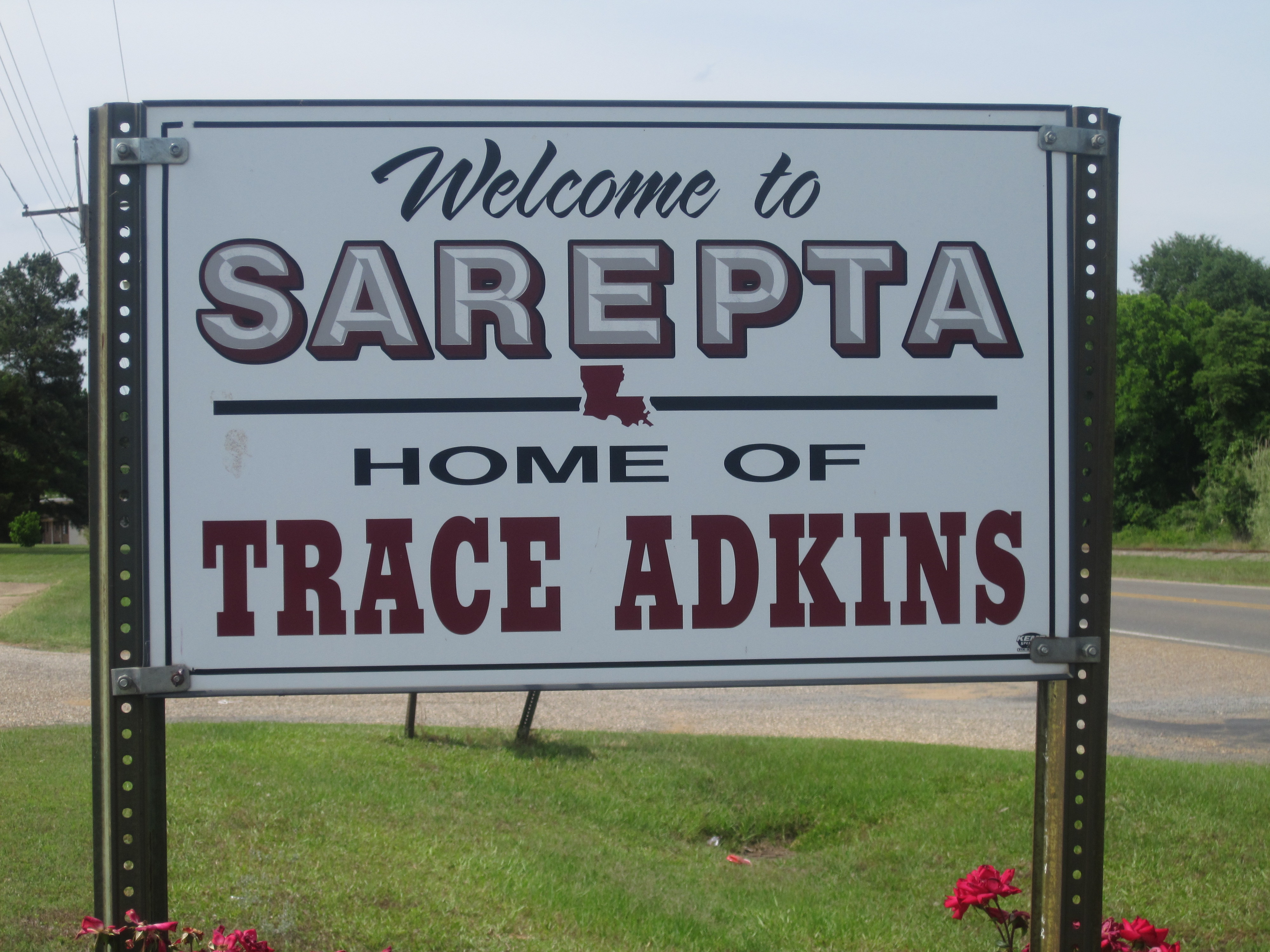 I took photo with Canon camera